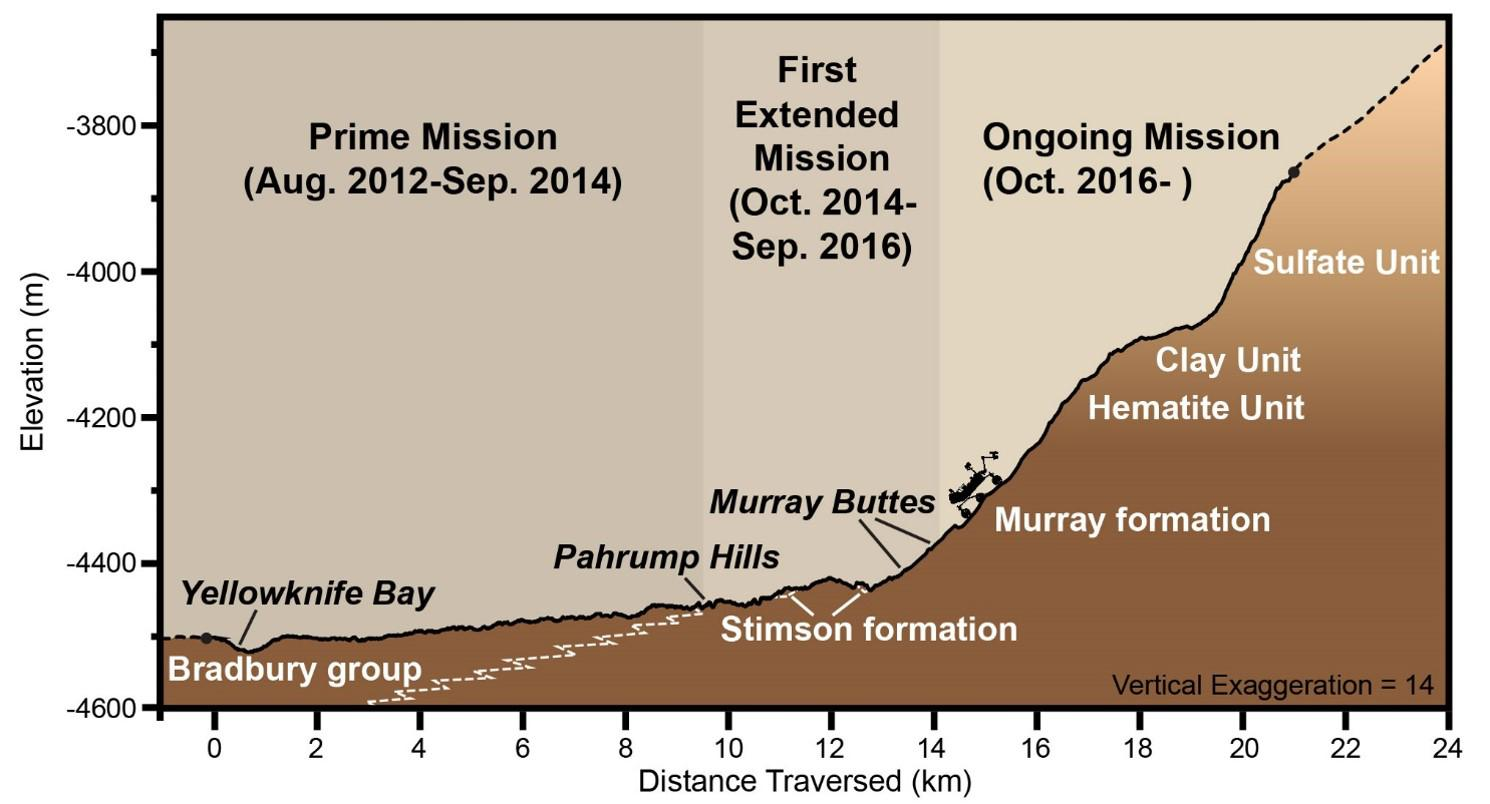 PIA21145: Curiosity Rover's Martian Mission, Exaggerated Cross Section This graphic depicts aspects of the driving distance, elevation, geological units and time intervals of NASA's Curiosity Mars rover mission, as of late 2016. The vertical dimension is exaggerated 14-fold compared with the horizontal dimension, for presentation-screen proportions. As of early December 2016, Curiosity had driven 9.3 miles (15 kilometers) since its August 2012 landing on the floor of Gale Crater near the base of Mount Sharp. It had climbed 541 feet (165 meters) in elevation. Elevation values shown on the vertical scale of this chart denote meters below an established zero-elevation level on Mars, which lacks a planetary "sea level." Because Curiosity is below the zero elevation, the numbers are negative. Presented at the 2016 AGU Fall Meeting on Dec. 13. in San Francisco, CA. NASA's Jet Propulsion Laboratory, a division of Caltech in Pasadena, California, manages the Mars Science Laboratory Project for NASA's Science Mission Directorate, Washington. For more information about Curiosity, visit and